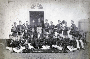 brass band sultan of lingga 1880